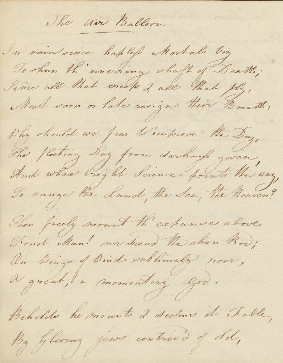 Manuscript of poem "The Air Balloon" by Robert Merry (1755-1798), dated before 1798. From a scrapbook of his manuscripts. MS Eng 994, Houghton Library, Harvard University